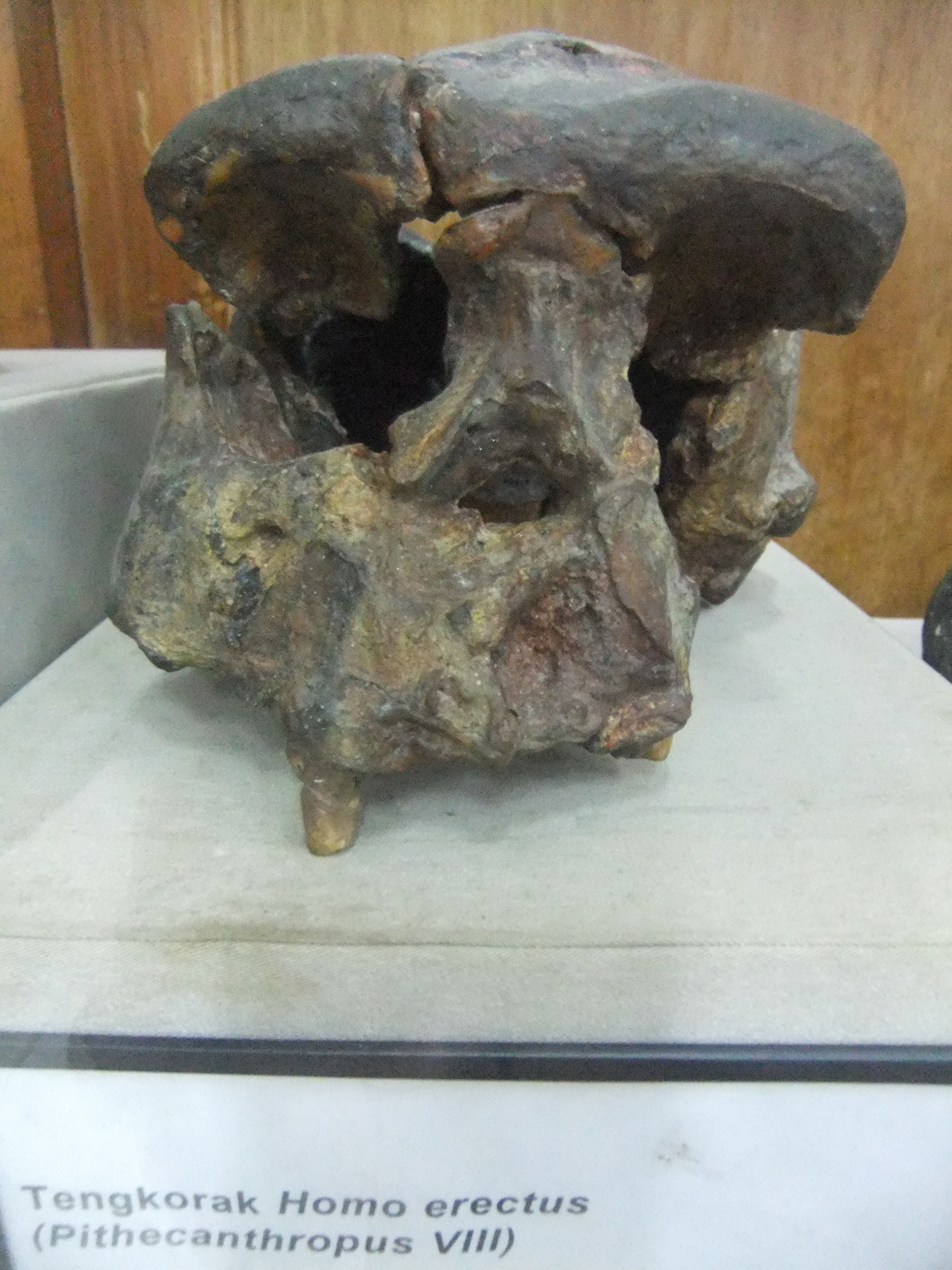 Homo erectus, Pithecanthropus VIII, Sangiran Museum